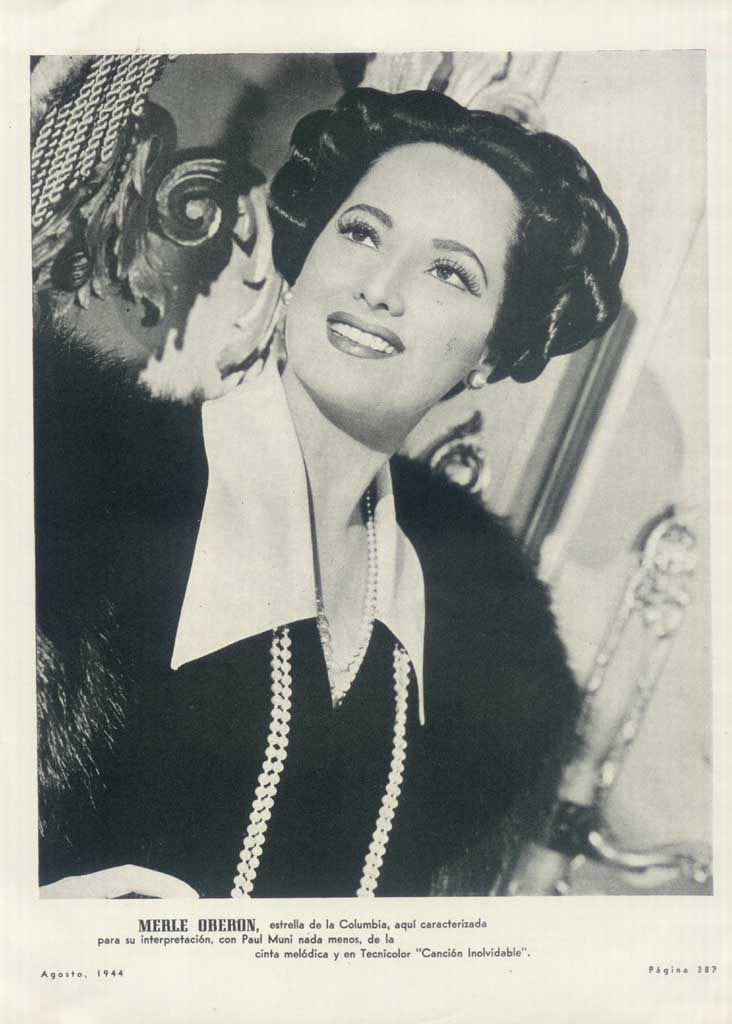 Publicity photo of Merle Oberon for Argentinean Magazine. (Printed in USA)